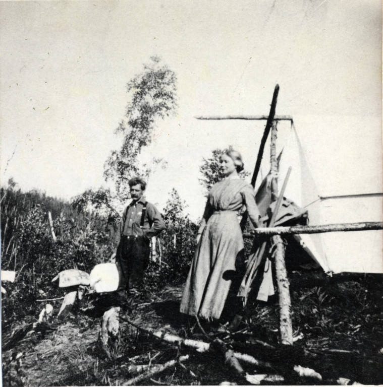 The date of the photo is unknown, however, Emil Pohl, pictured in the photo, passed away in 1911. So, the photo was taken previous to 1911.